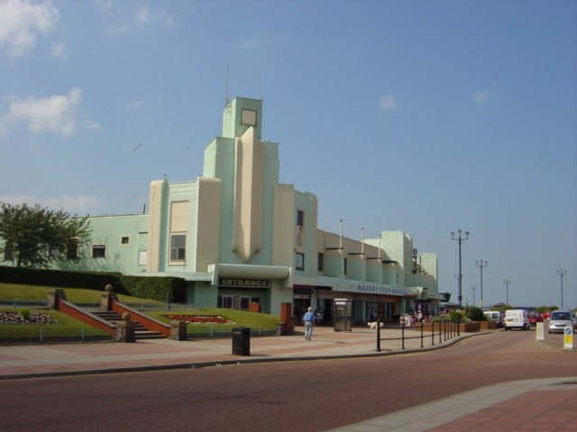 The New Palace amusement arcade in New Brighton on the Wirral Peninsula, England. Situated next to the Floral Pavilion and Victoria Gardens, this wonderful art deco building which used to house an indoor fair when the outdoor fair was at the tower gardens (New Brighton Tower was the highest building in Britain at one time) now sadly demolished. It is now described as "New Palace Adventure and Amusement Centre an indoor leisure complex including a family amusement arcade, indoor adventure and children's play area (including Bouncy Castle, Ball Pond and Climbing Wall). Also an outside fairground." You can still buy rock and candy floss and fish and chips from the shops at the front.